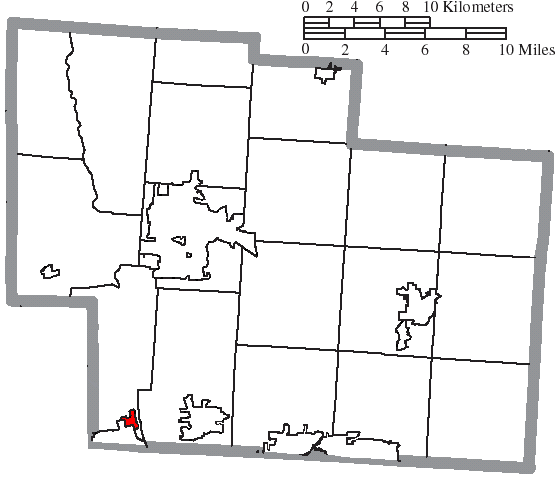 Map of the municipal and township boundaries of Delaware County, Ohio, United States, as of the 2000 census, with the location of the village of Shawnee Hills highlighted. Township borders are shown only in unincorporated areas in order to differentiate incorporated and unincorporated areas more clearly.